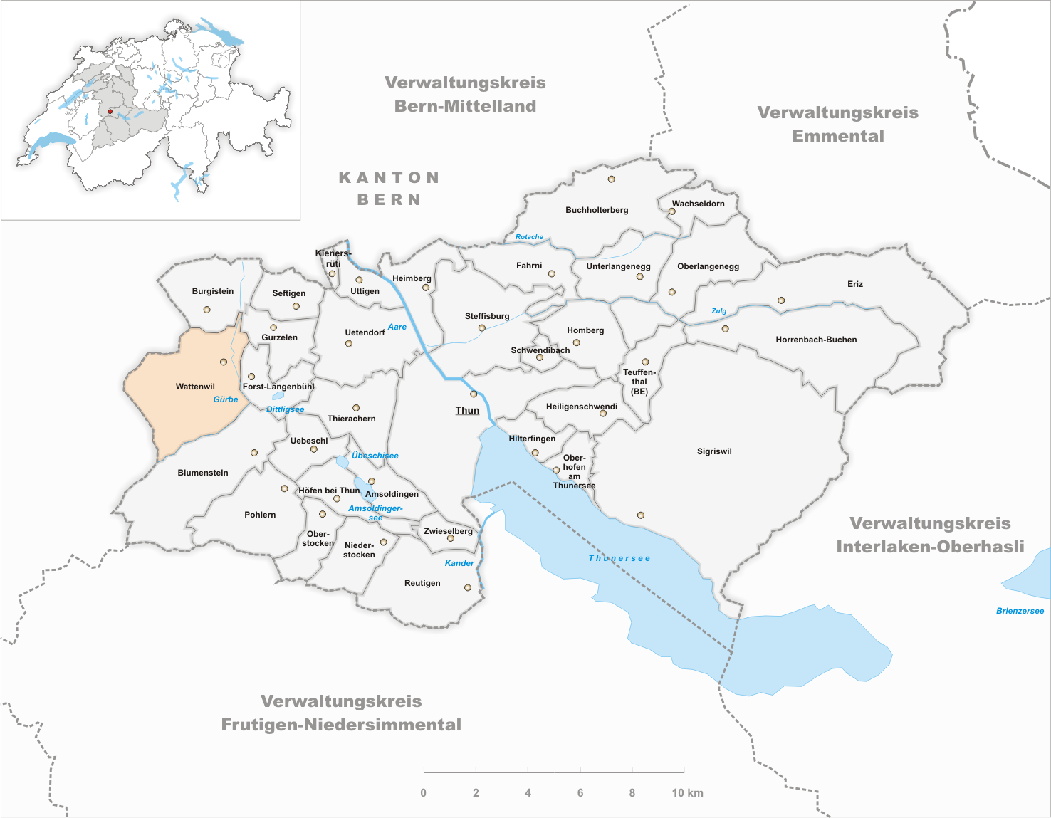 Municipality Wattenwil